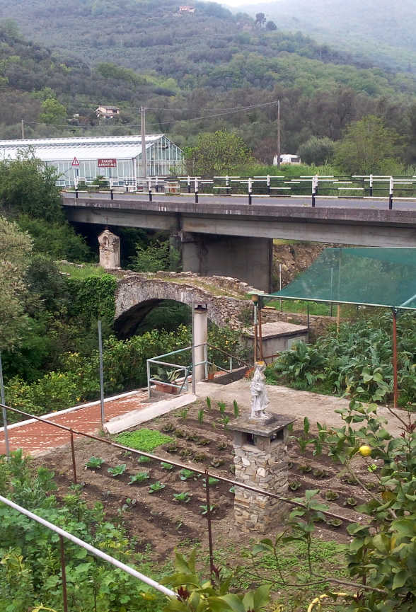 Two bridges near Diano Roncagli on the Torrente San Pietro (Liguria, Italy)